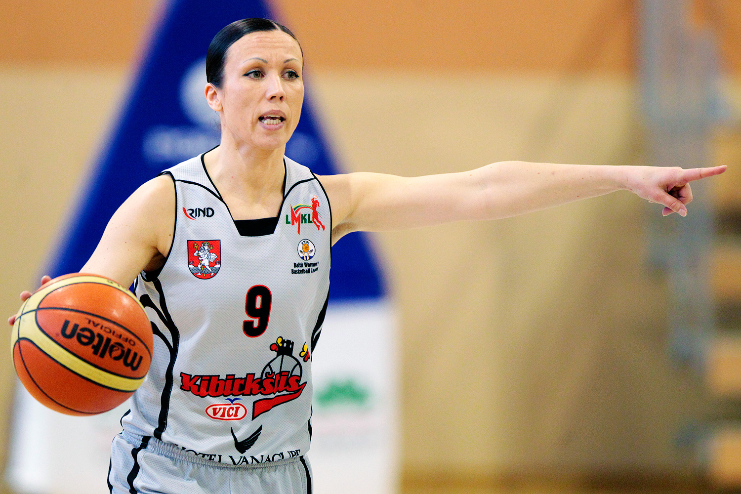 Basketball player Rima Valentiene